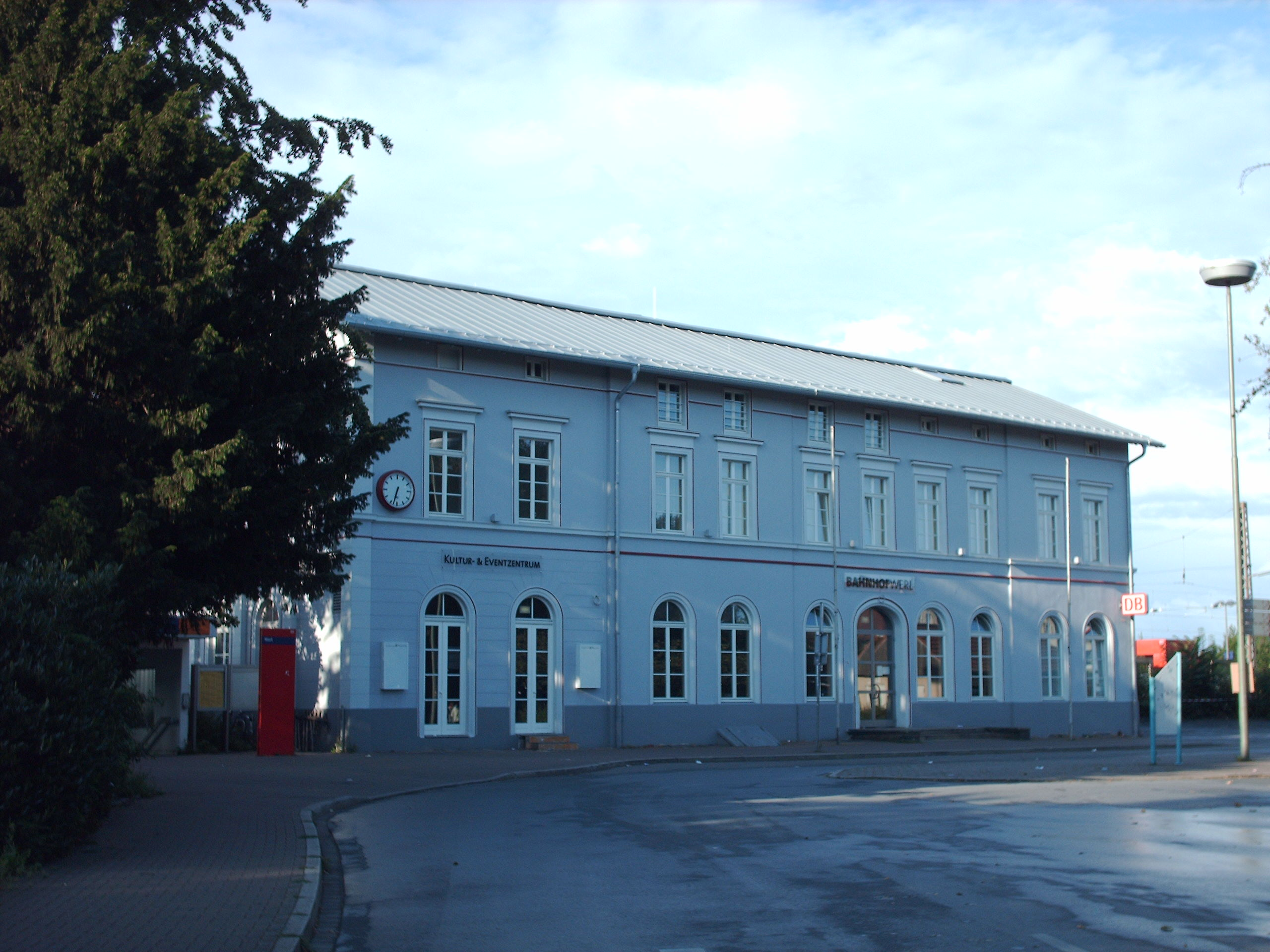 Werl station, Werl, Germany check usage